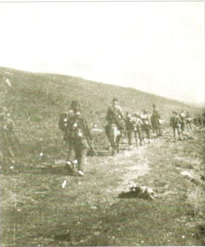 Macedonian partisan battalion "Stiv Naumov" in action